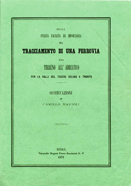 Front cover of the book On the usefulness, easiness and importance of outlining a railway from the Tyrrhenian to the Adriatic Sea across the Tiber-Velino and Tronto valleys by Camillo Ravioli, published in 1871